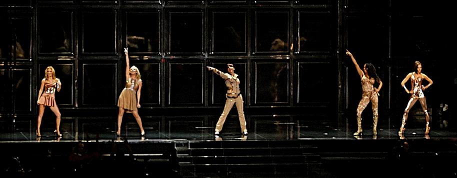 The Spice Girls performing Say You'll Be There at the Air Canada Centre in Toronto, Canada.